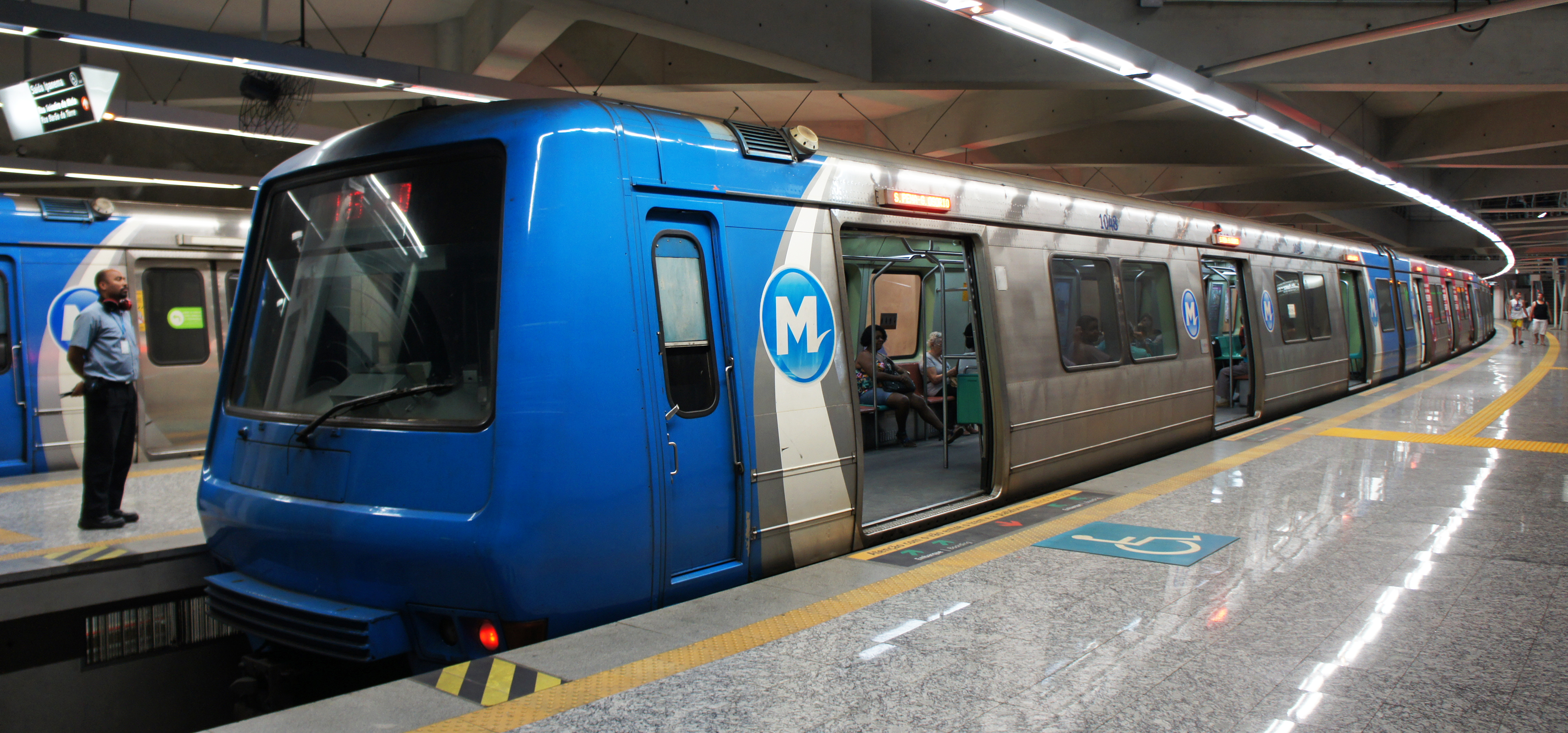 Metrô Rio, Ipanema/General Osório station, Rio de Janeiro, Brazil